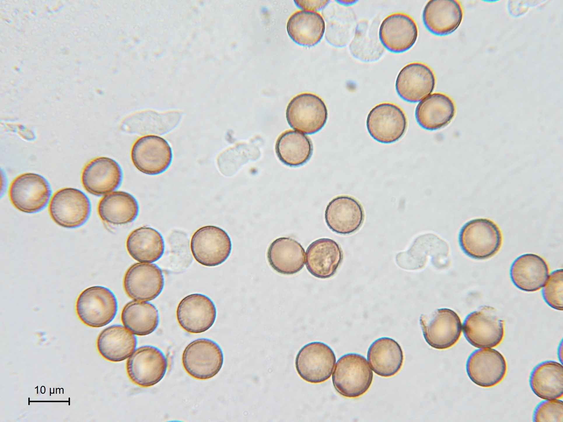 Spores of Symphytocarpus flaccidus with budded myxoflagellates.